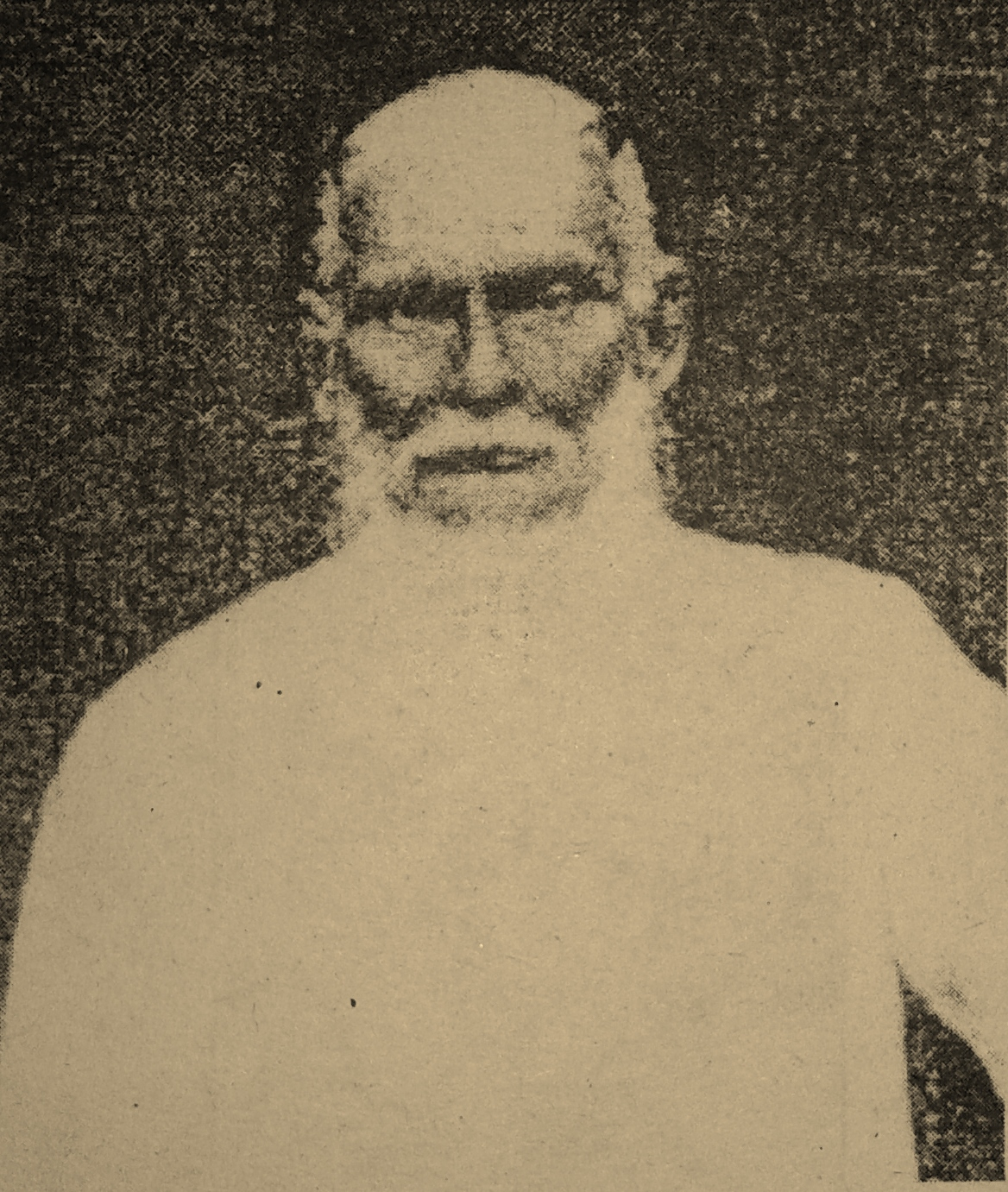 Photograph of Velum Perera Wickramarachchi (Father of Pandit G. P. Wickramarachchi)